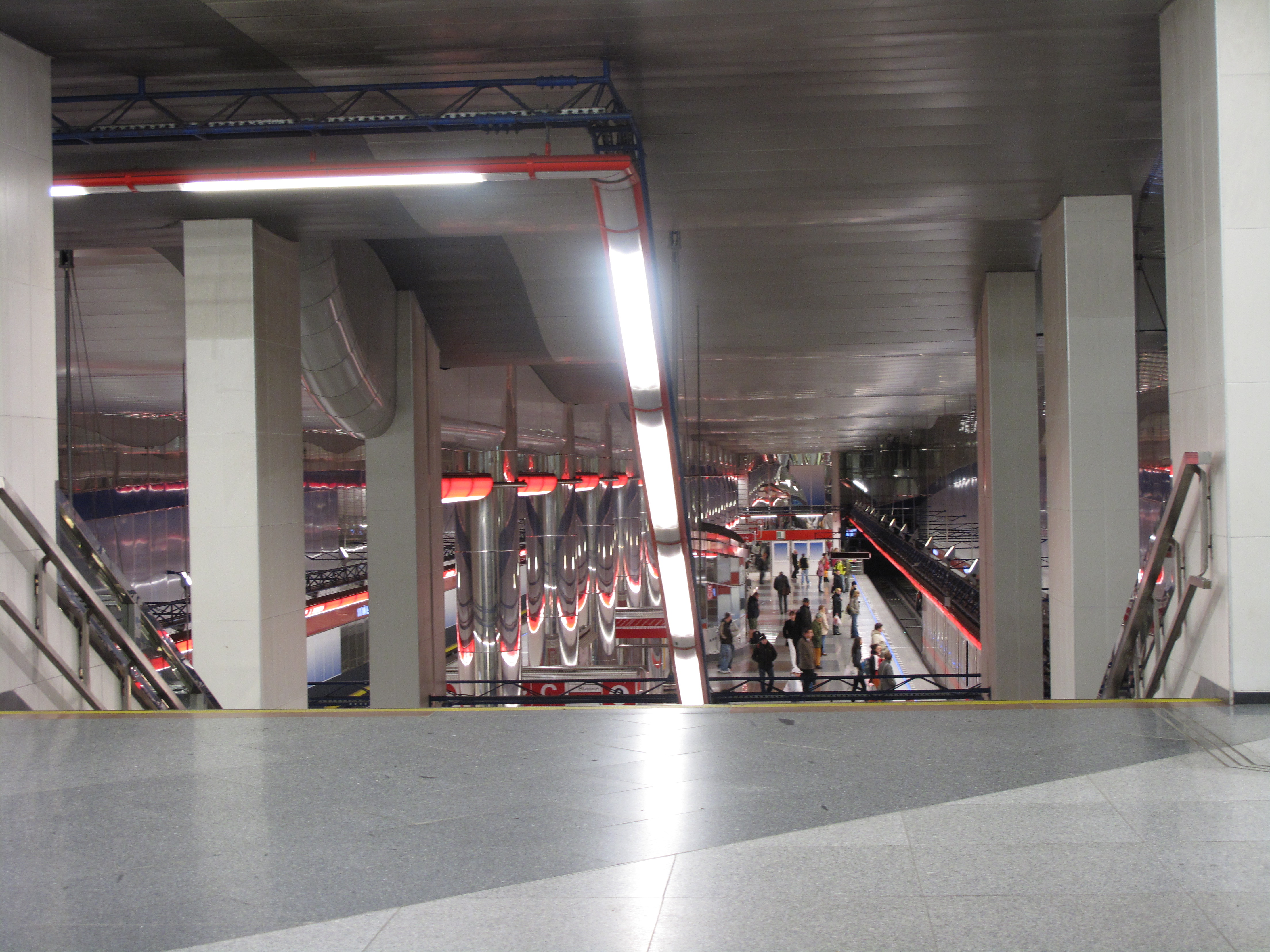 Letňany metro station - architectural design, Prague, Czech Republic.